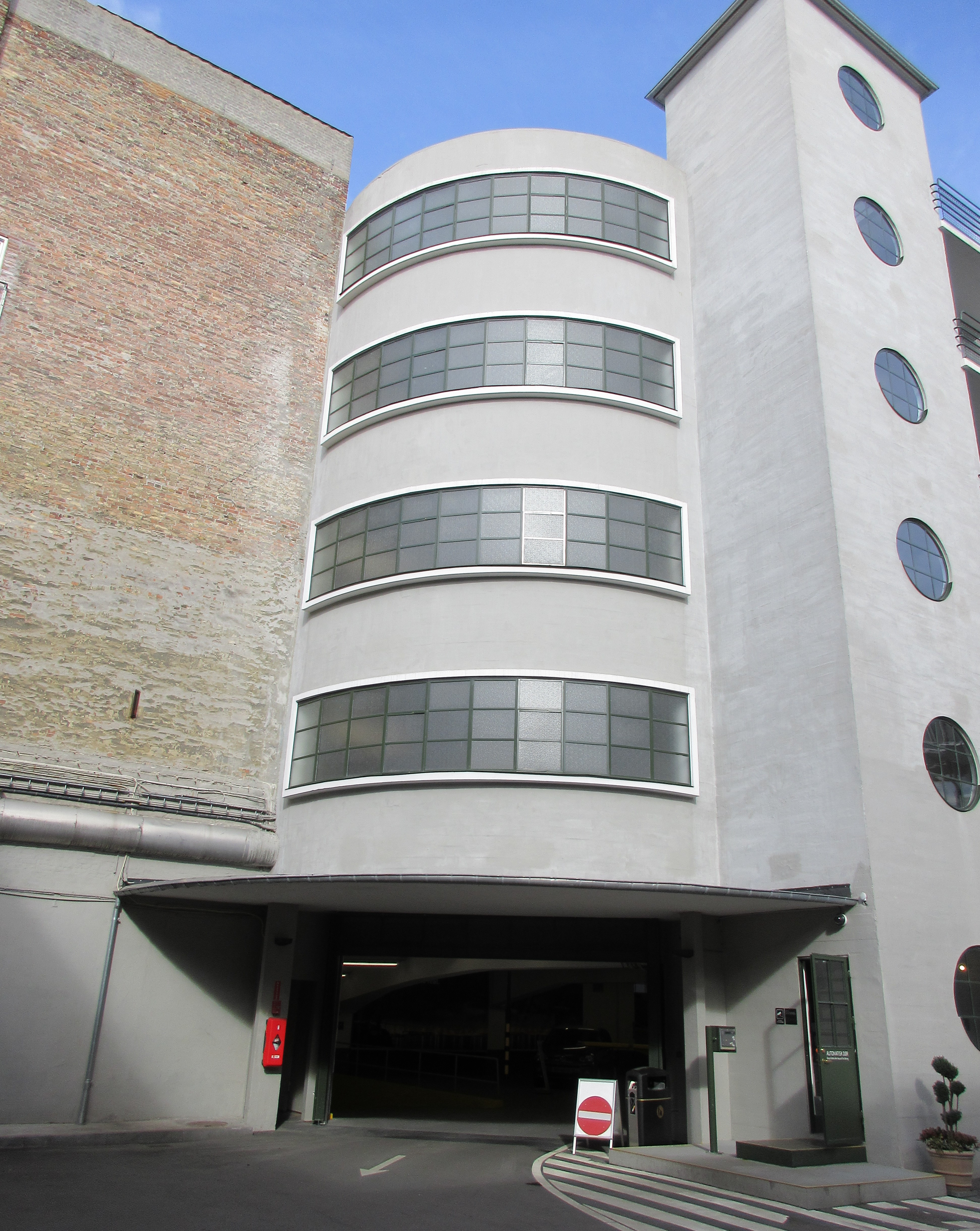 Palæ-garagerne in Dronningens Tværgade in Copenhagen, Denmark